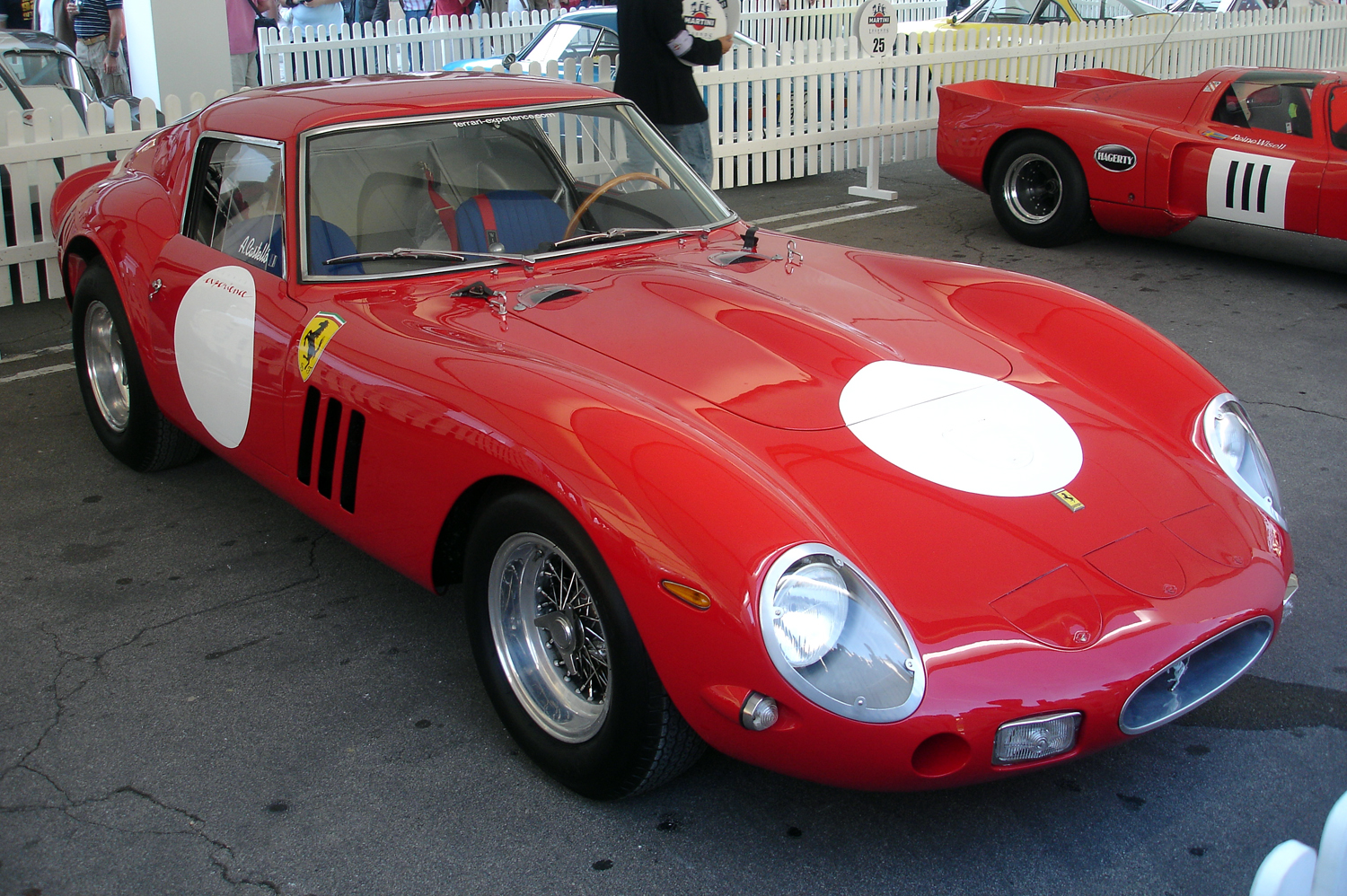 replica, replica, replica, Ferrari 250 GTO replica, built on the chassis from a 1963 Ferrari 250 GTE (#4861).[1][2]